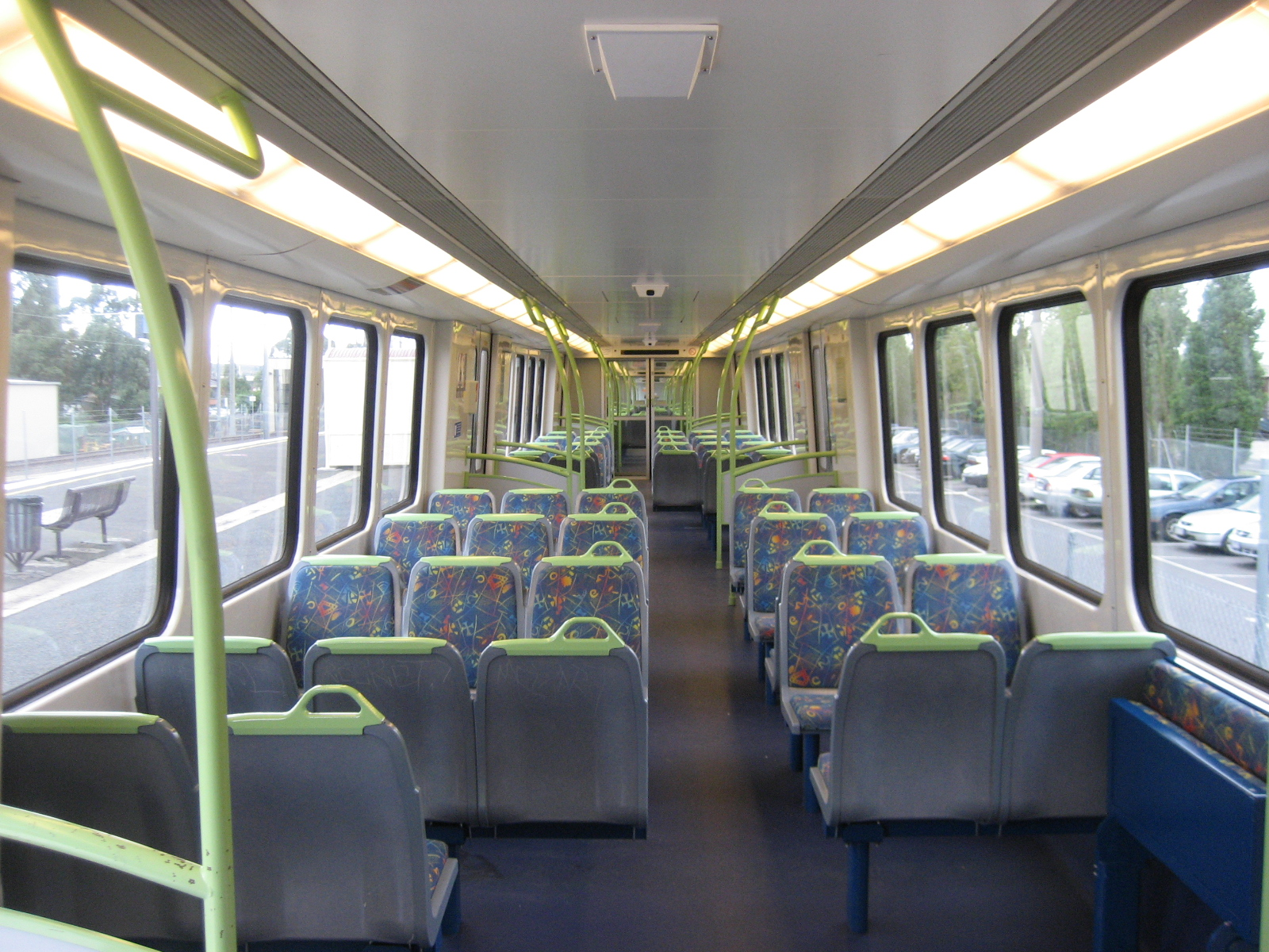 Interior of a Connex Melbourne Xtrapolis train at Epping.